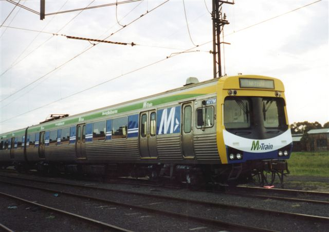 477M lead car of set 89 at Newport shops on 17/10/2002 fresh from refurbishment. This is part of the train that was known as the 45th super train which was comeng sets 89/90 coupled as the 45th 6 car set.